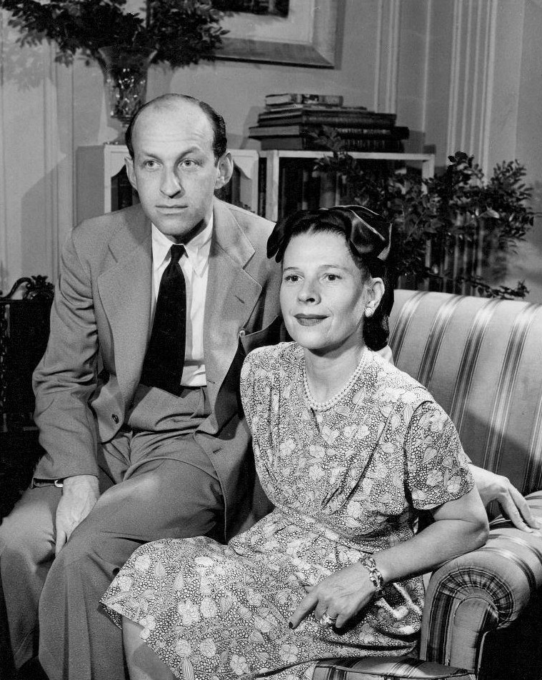 Photo of playwright and director Garson Kanin and his wife, actress Ruth Gordon.